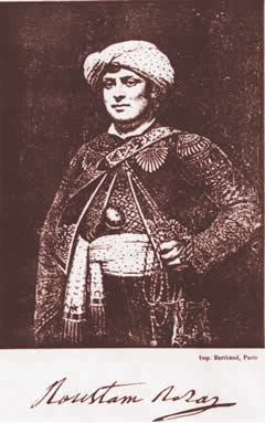 Roustam Raza was an Armenian slave who worked in the Mamluk army, and who later became a trusted attendant to Napoleon Bonaparte.